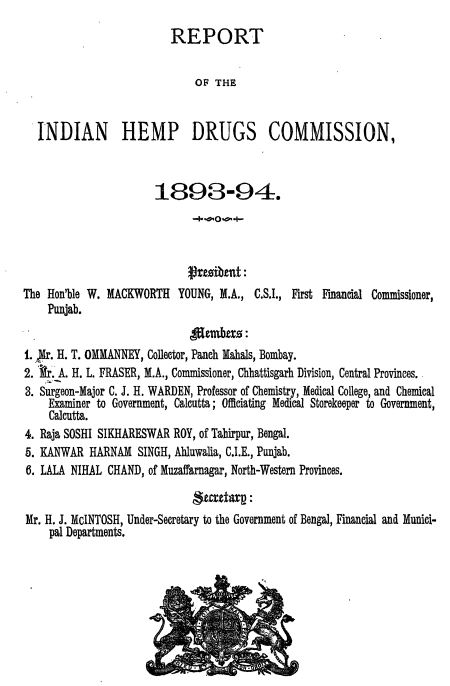 Cover sheet of the Indian Hemp Drugs Commission, 1893-1894